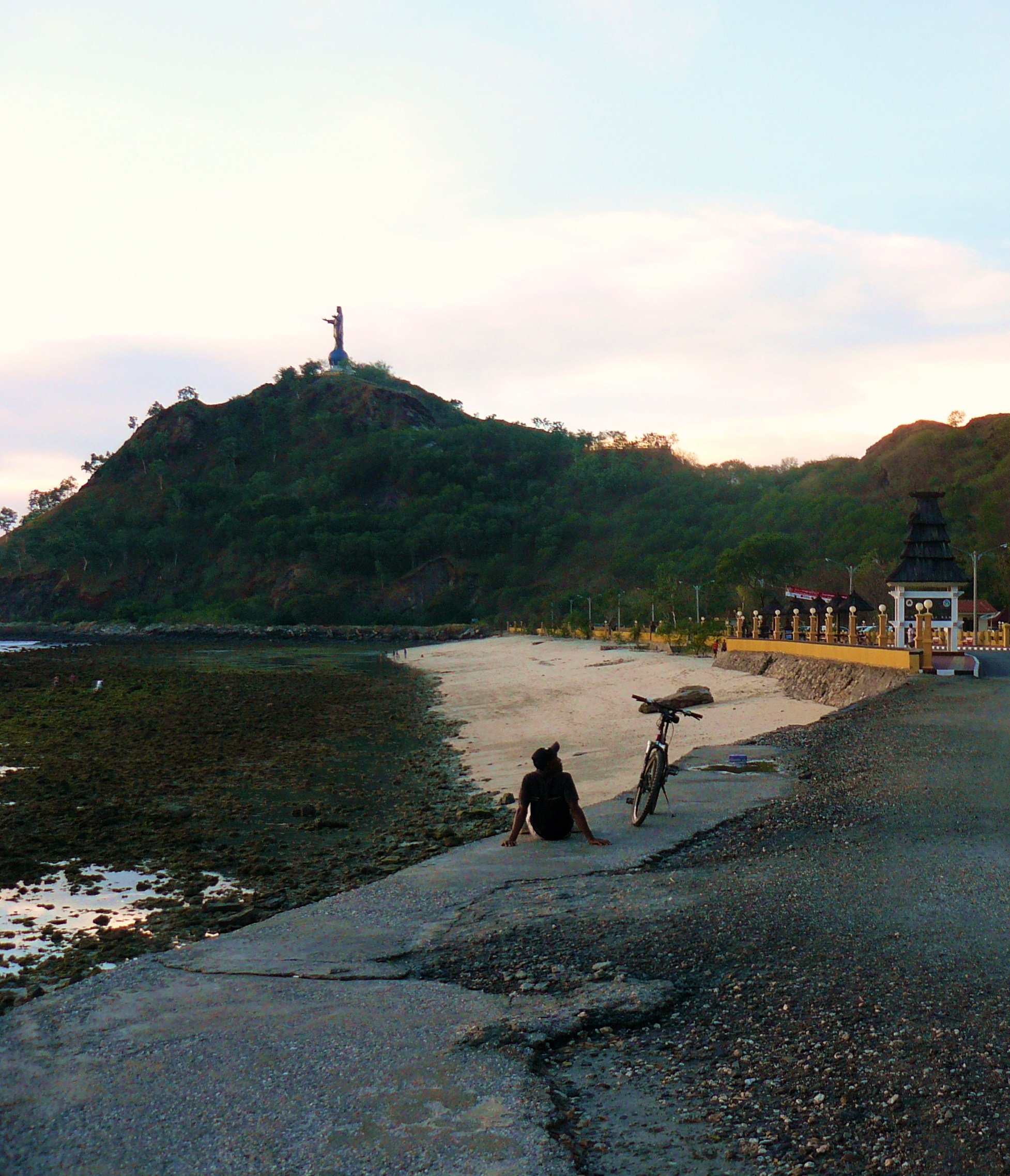 Beach Areia Branca, Dili, East Timor